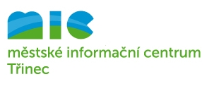 Logo Official Information Center of Trinec